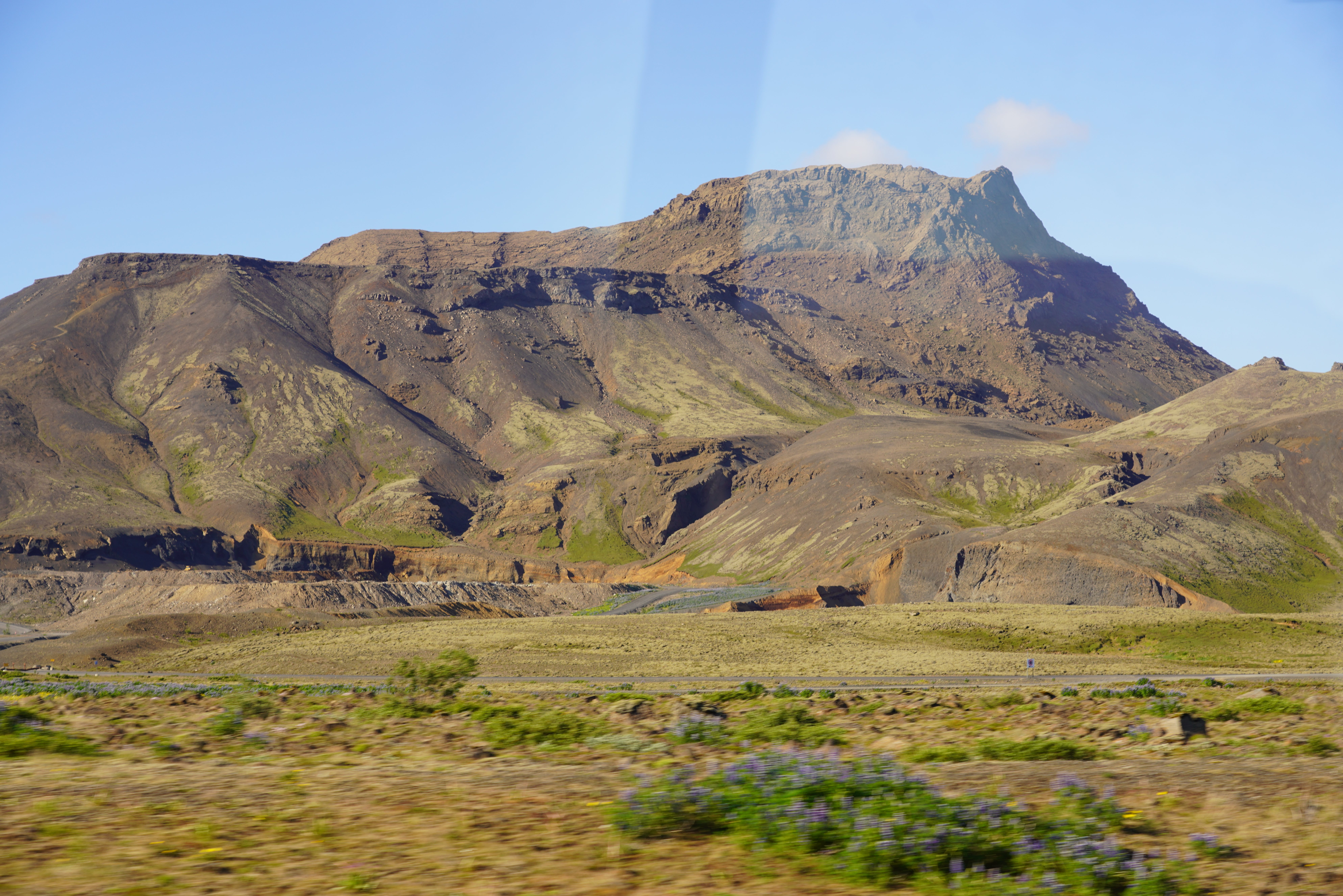 20190622_ThorsmorkHwy_7441